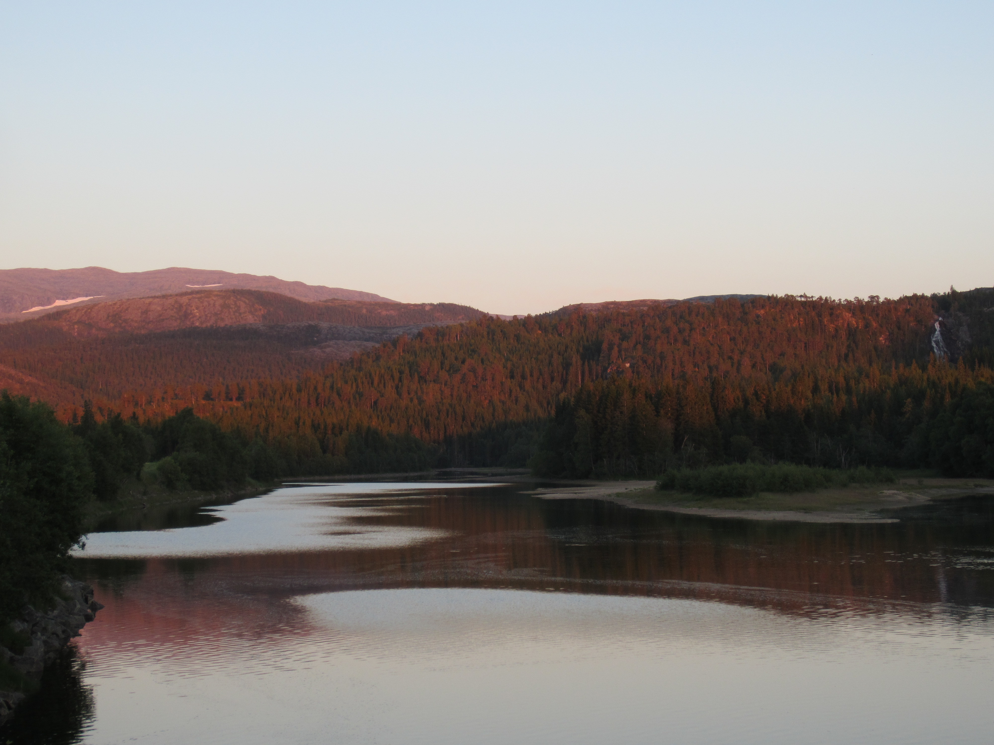 Photography of Åelva, a river in Bindal municipality, Nordland, Norway.